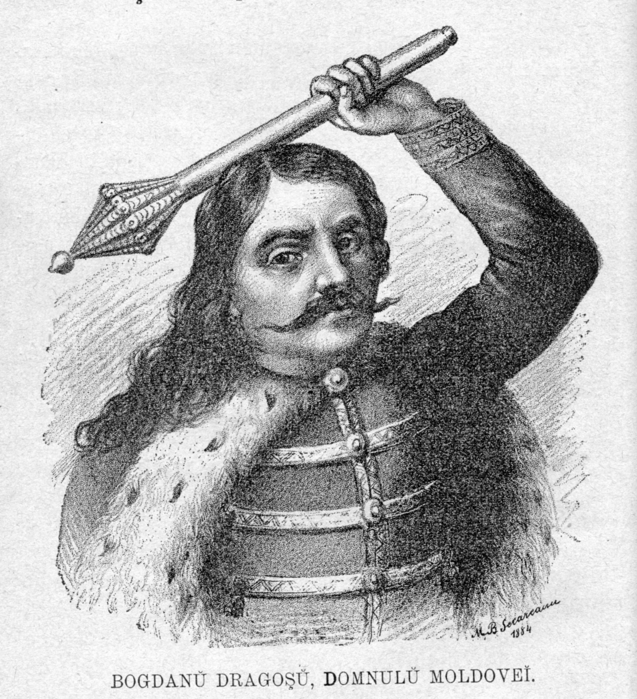 Bogdan Dragoş of Wallachia